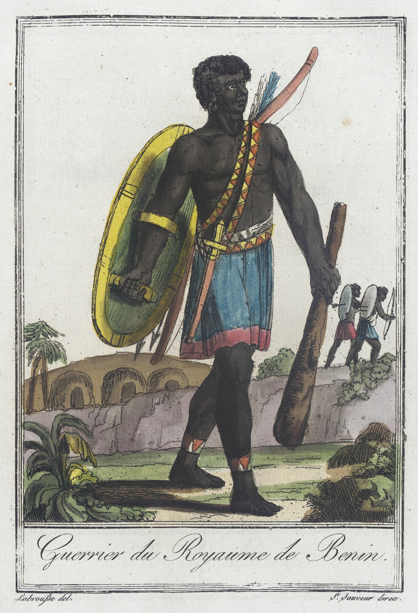 France, circa 1797 Prints; engravings Hand-tinted engraving on paper Sheet: 10 x 7 7/8 in. (25.4 x 20.01 cm); Composition: 7 5/8 x 5 3/8 in. (19.37 x 13.65 cm) Costume Council Fund (M.83.190.309) Costume and Textiles